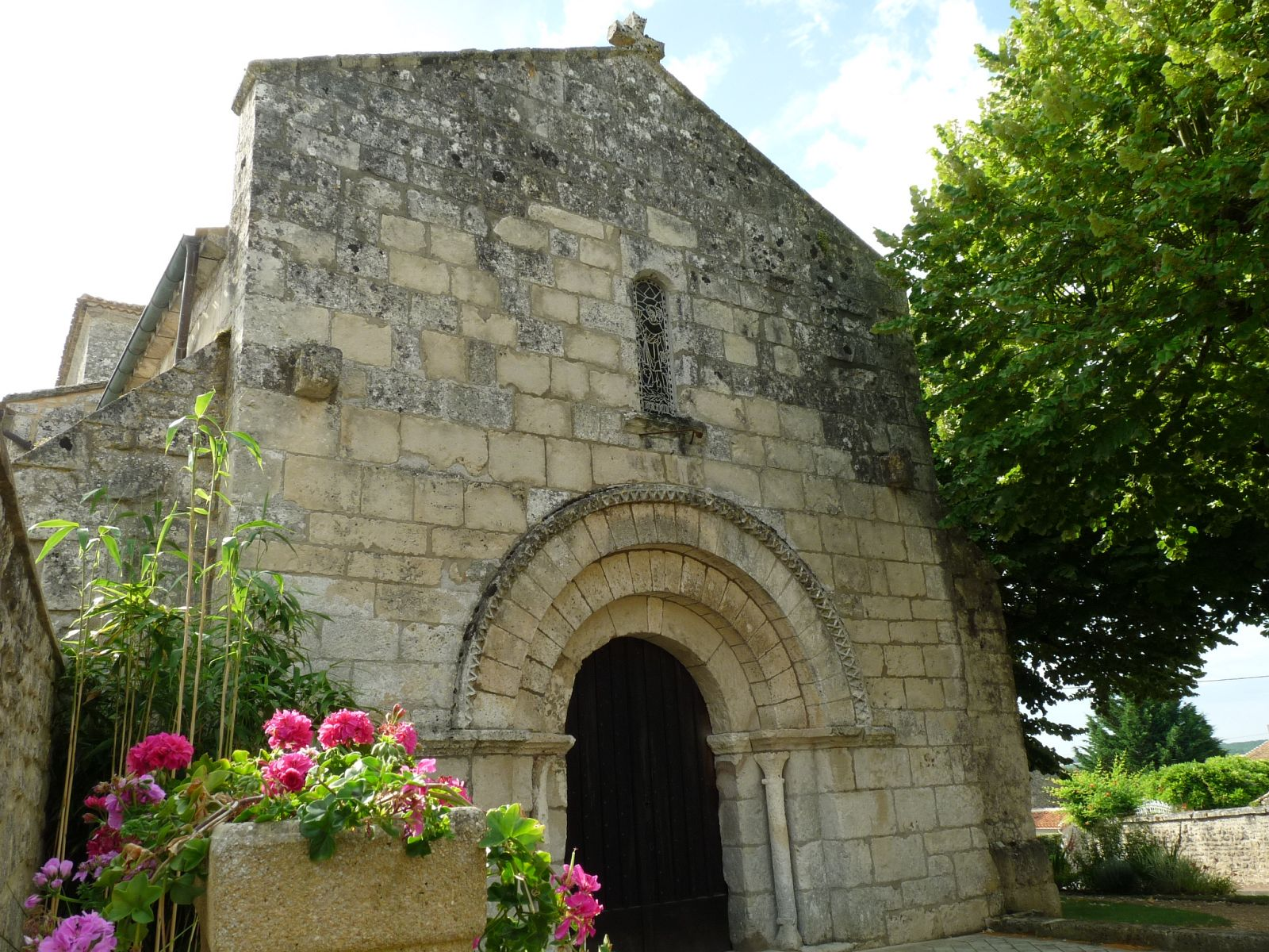 church of Puymoyen, Charente, SW France